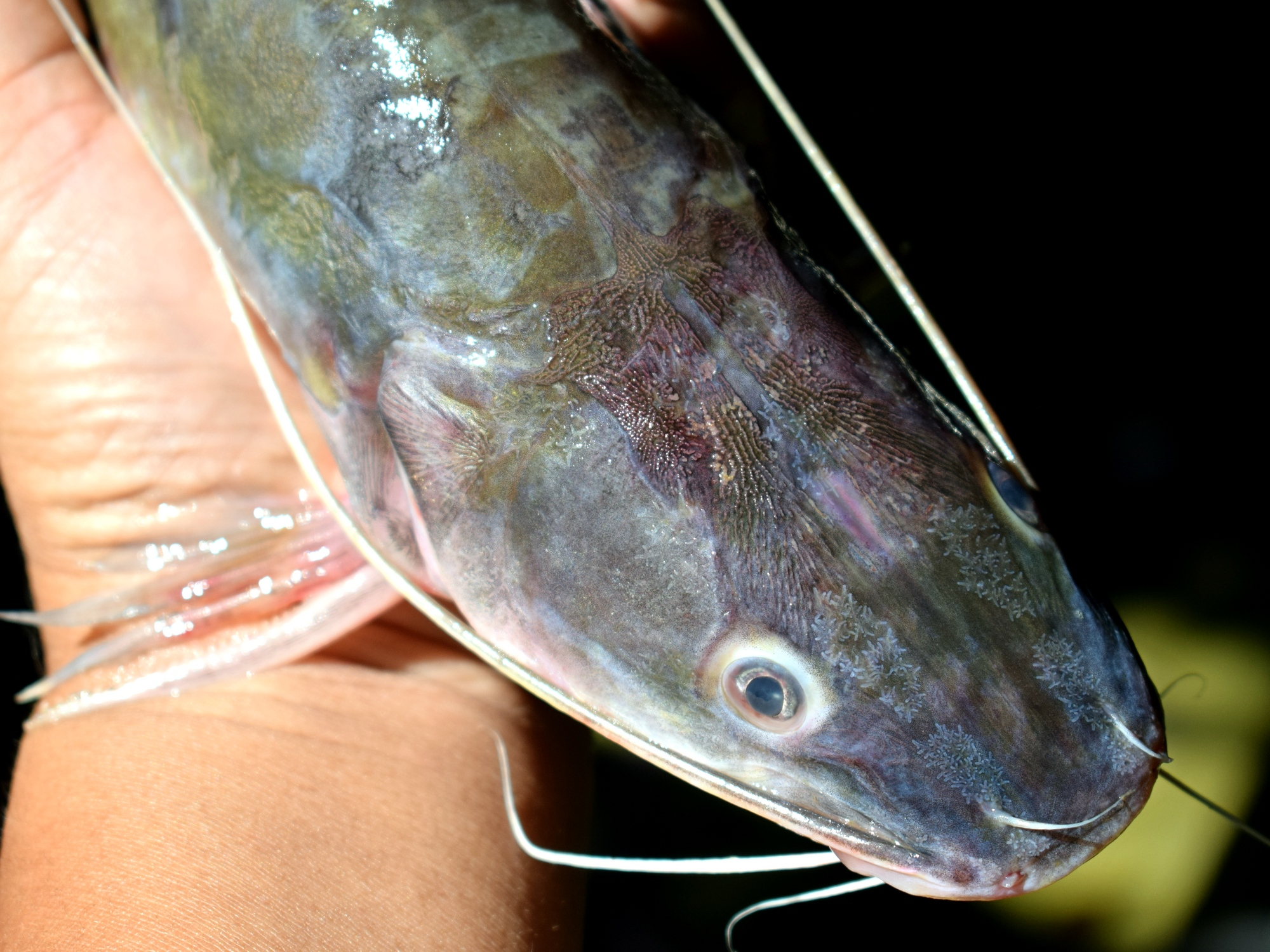 Hemibagrus nemurus, female, 294mm SL; from Cihideung, a tributary of Cisadane River, Bogor, West Java, Indonesia. Occipital region of head.